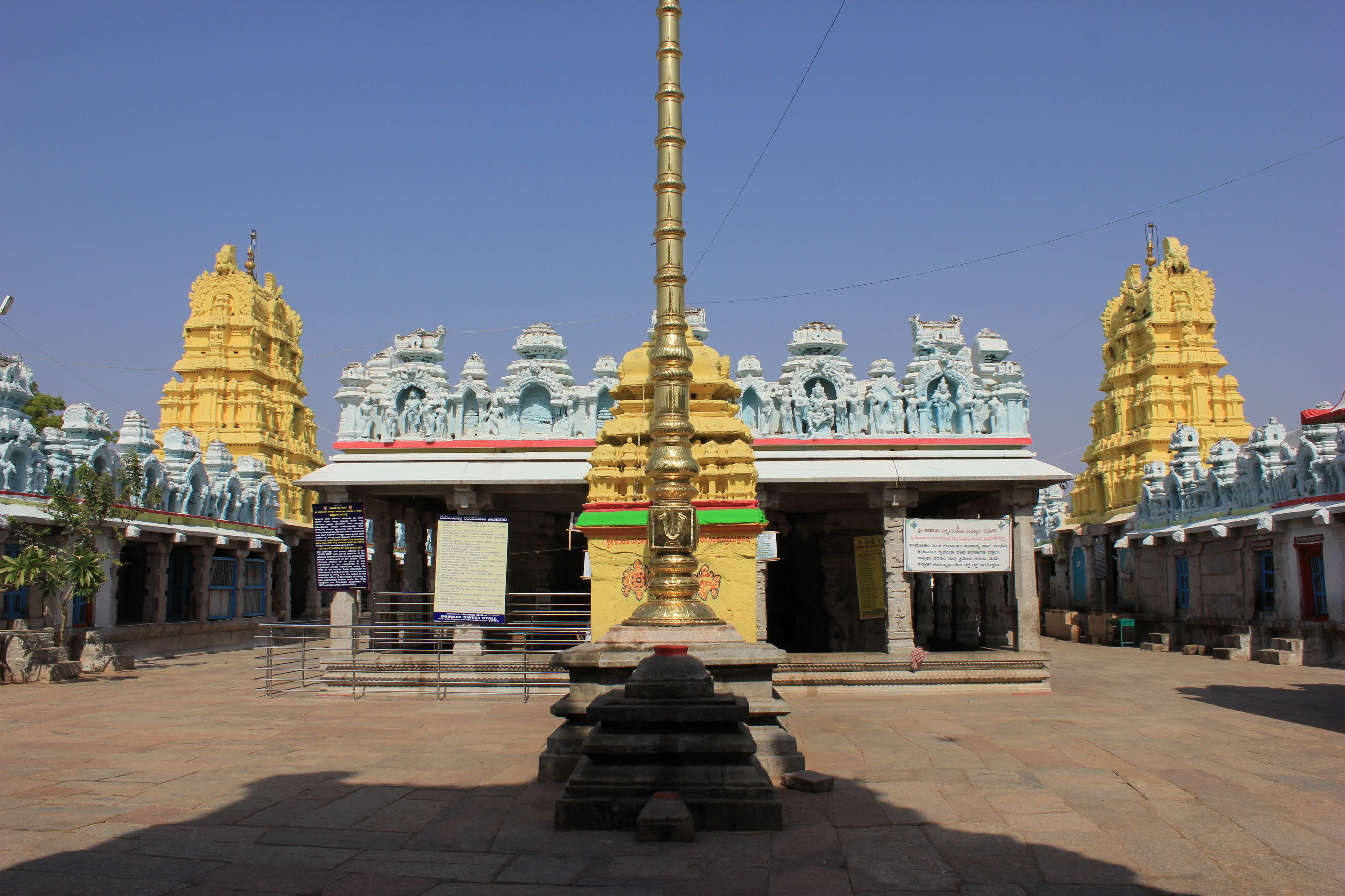 This photograph was taken by me at the Kanakachalapathi temple at Kanakagiri in the Koppal district of Karnataka state, India. The temple is a 16th century Vijayanagara empire era construction.